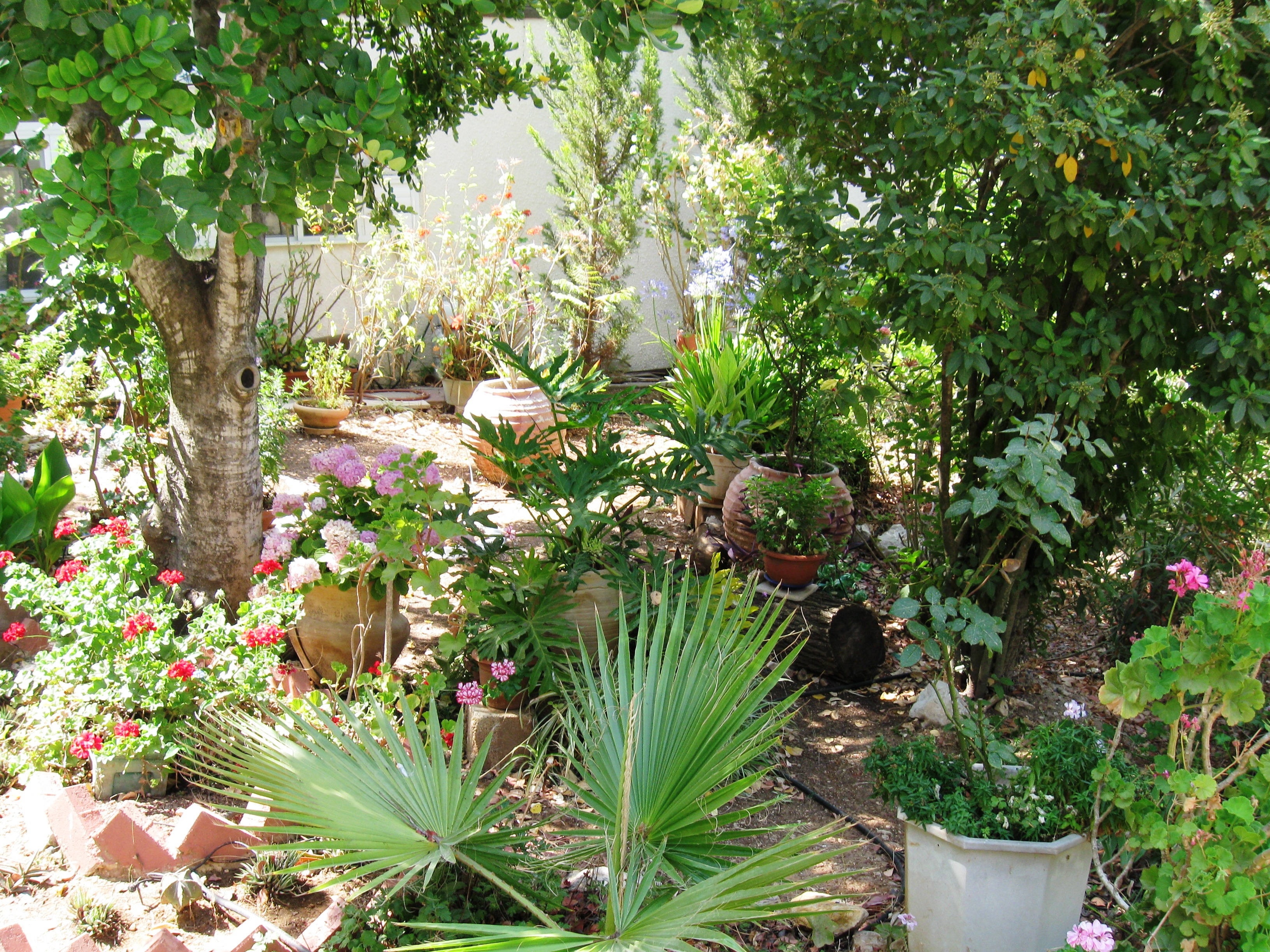 Garden_in_Kedumim_Shomron1